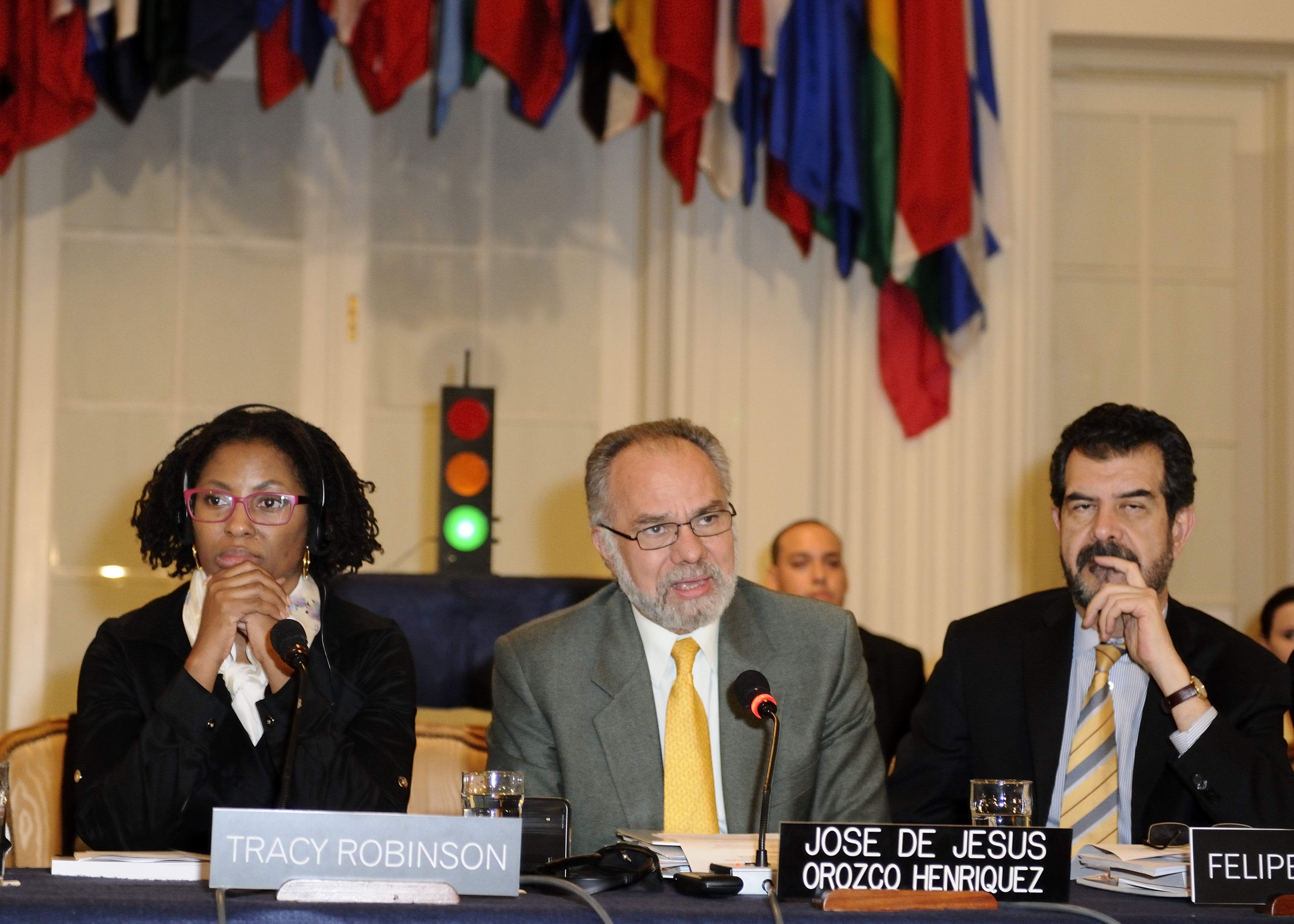 From left to right: Commissioner Tracy Robinson, First Vice-Chair of the Inter-American Commission on Human Rights Commissioner José de Jesús Orozco, Chair of the Inter-American Commission on Human Rights Commissioner Felipe González, Second Vice-Chair of the Inter-American Commission on Human Rights Date: October 31, 2012 Place: Washington, DC Credit: Juan Manuel Herrera/OAS